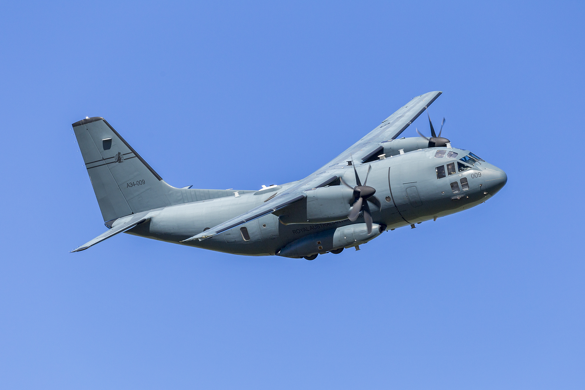 Royal Australian Air Force (A34-009) Alenia C-27J Spartan flying over Wagga Wagga Airport